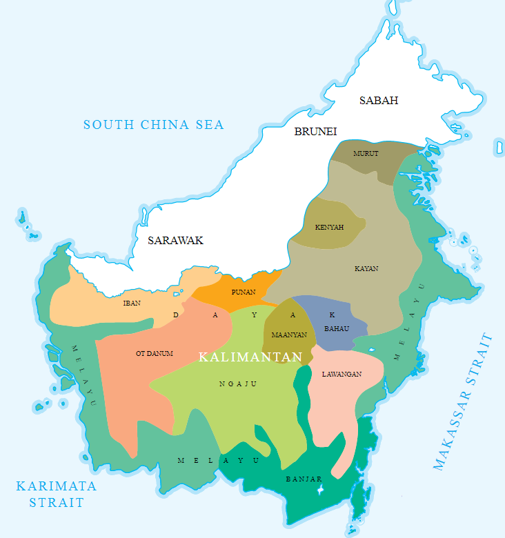 The map was redrawed and made based on a large map of "Peta Suku Bangsa di Indonesia" displayed in Ethnography Room in National Museum of Indonesia, Jakarta. The image was simply a cropped version highlighting the ethnic groups in Kalimantan from the original.